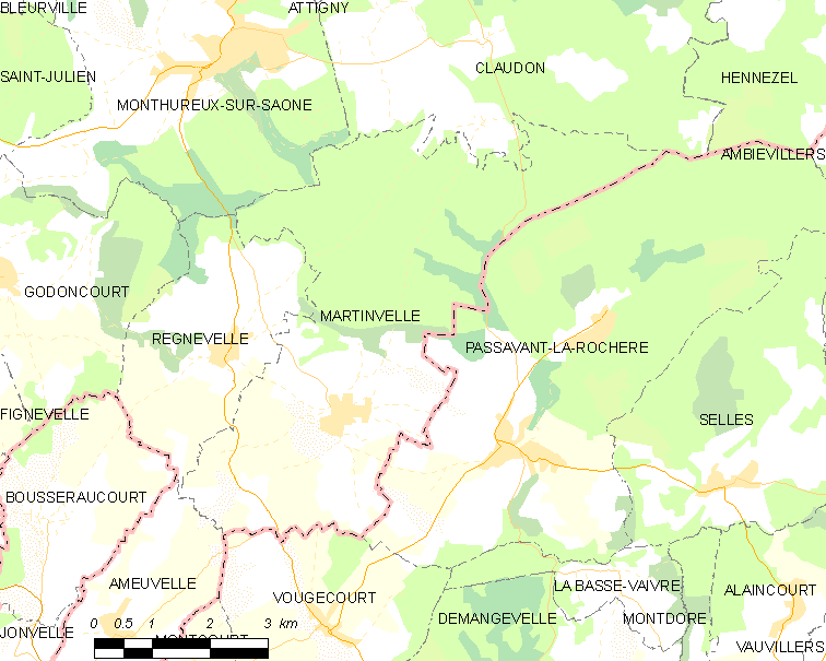 Map of French municipality Martinvelle